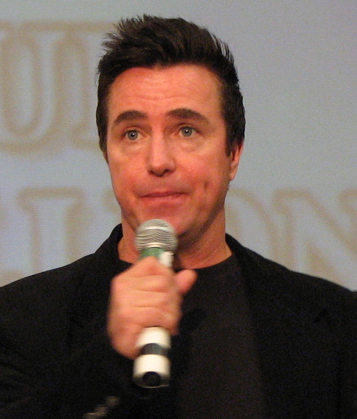 Paul McGillion at the Creation Official Stargate Convention 2007